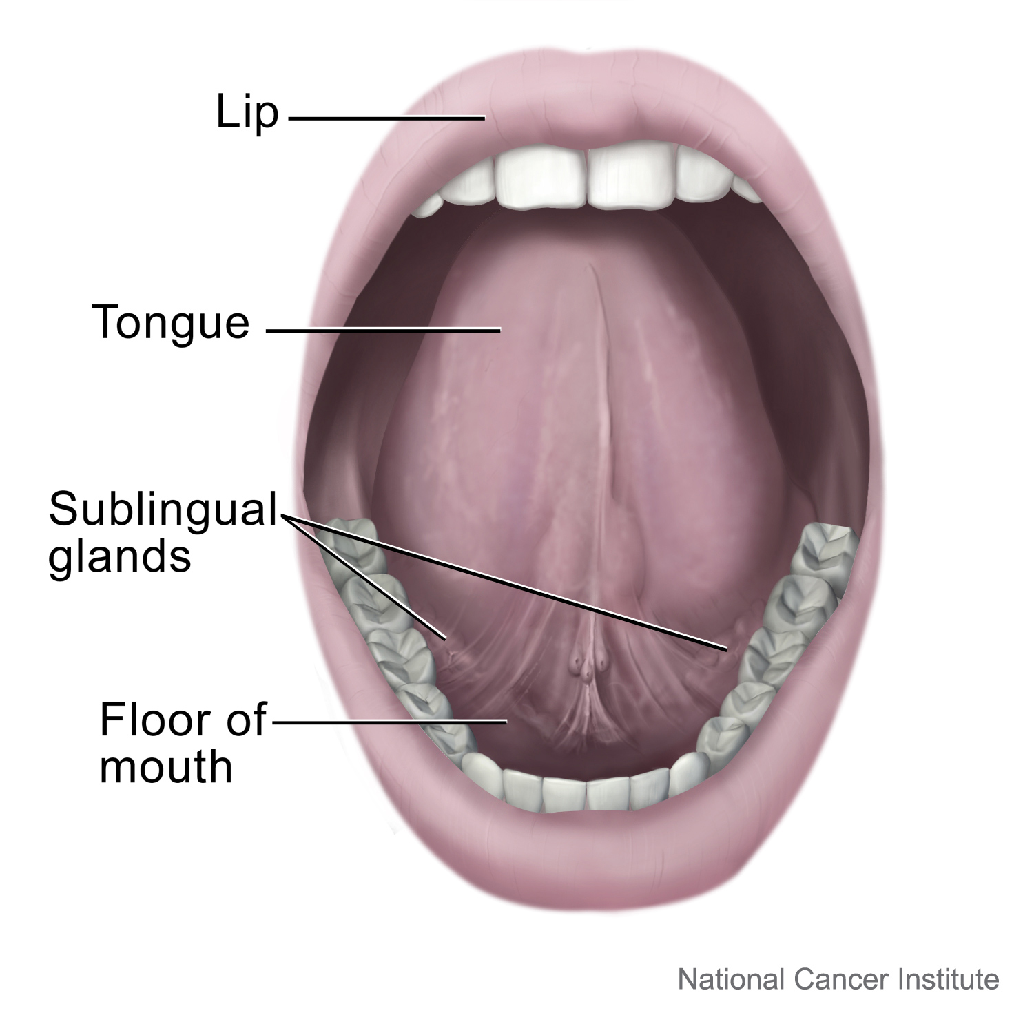 Title Mouth and Tongue Description The underside of the tongue and nearby structures (lip, tongue, salivary glands, and floor of the mouth) are identified. Image is included in this publication: Topics/Categories Anatomy -- Digestive/Gastrointestinal System Type Color, Medical Illustration Source National Cancer Institute